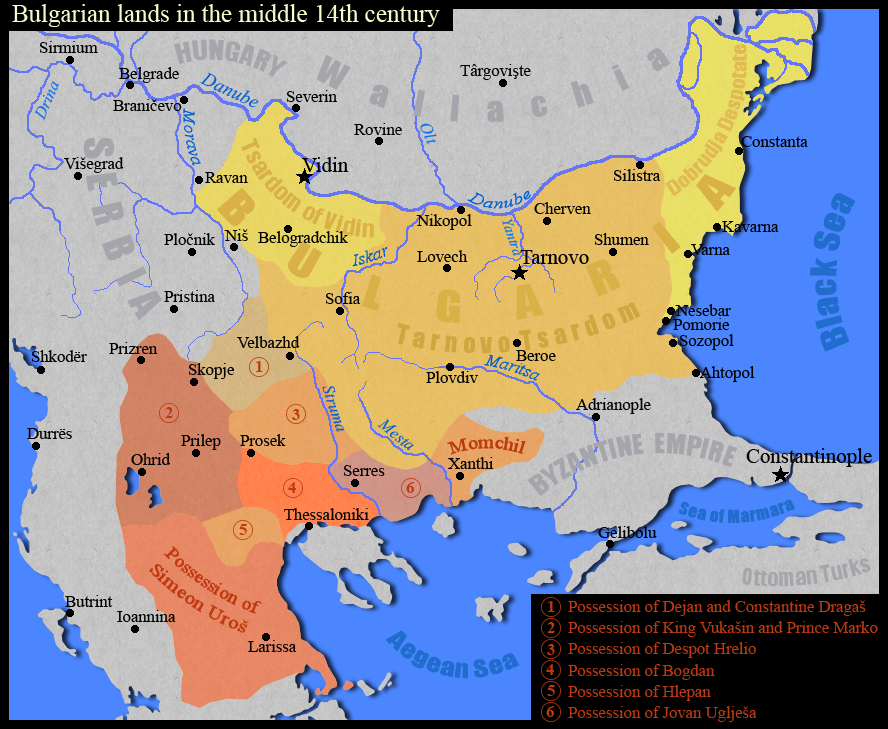 Тhe Bulgarian lands in the middle of the 14th century.